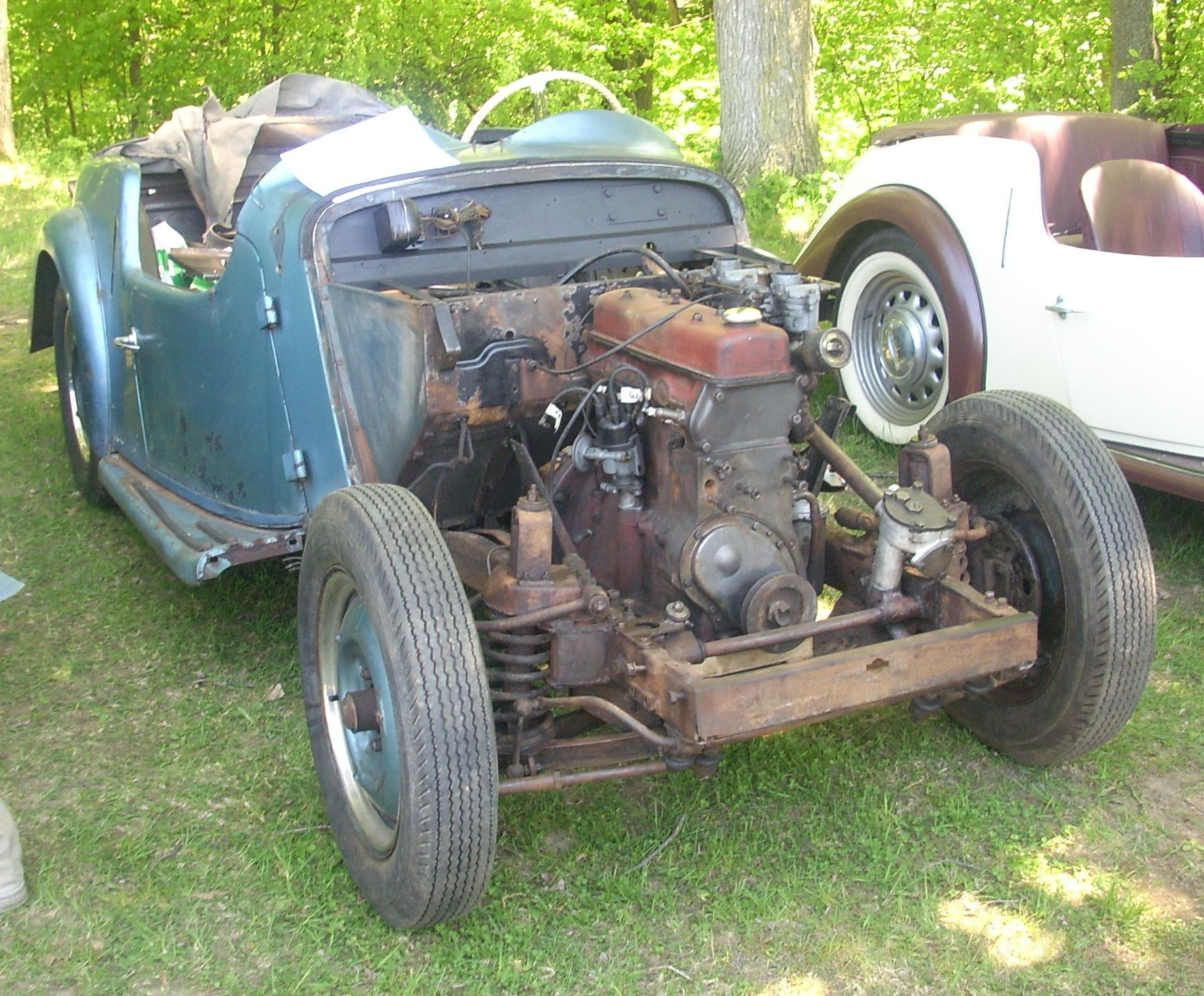 1955 Singer SM Roadster (4AD) photographed at the 2008 Hudson British Car Show.